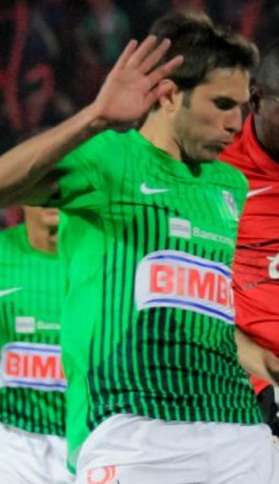 Monterrey player José María Basanta